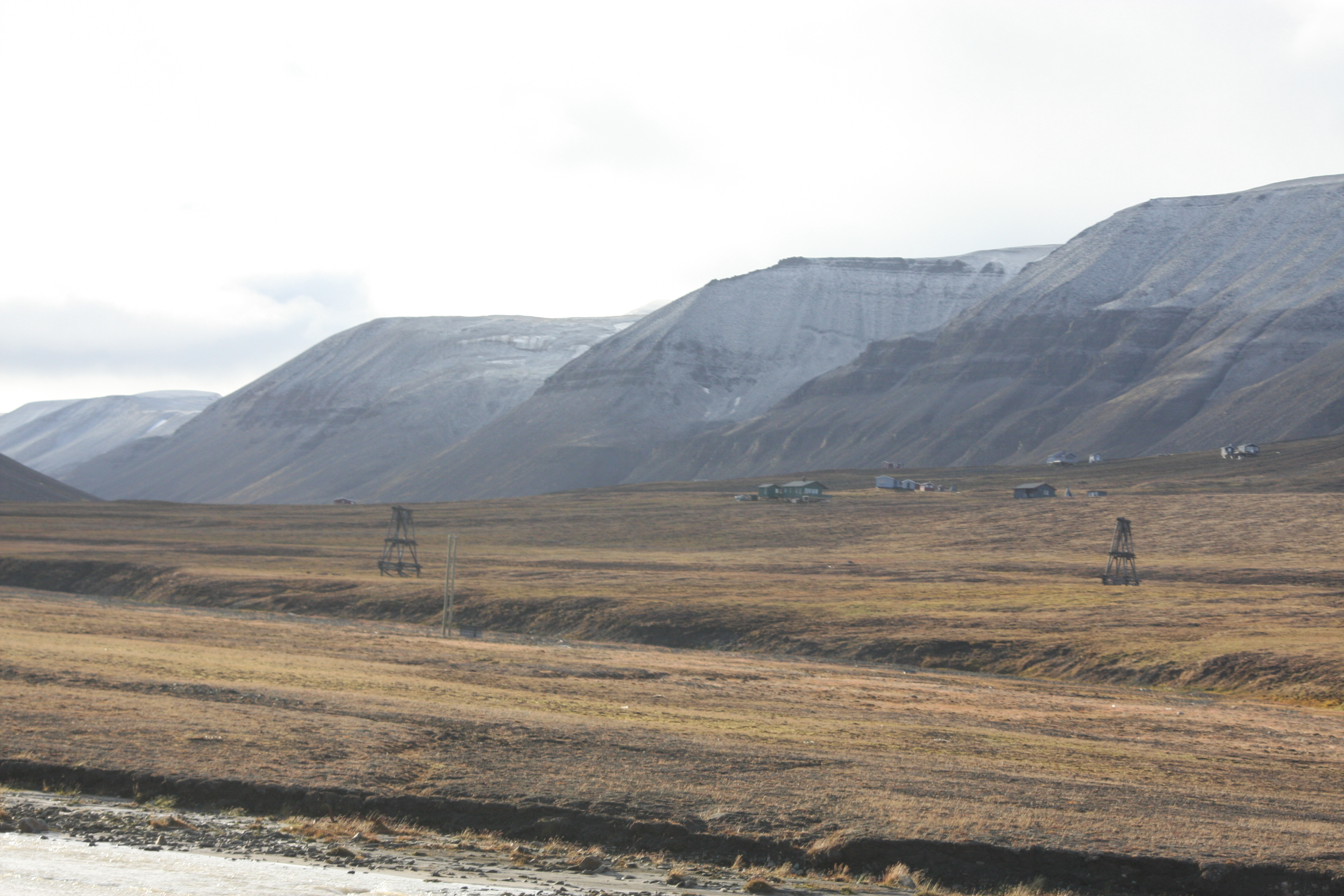 Todalen by Adventdalen, Spitsbergen